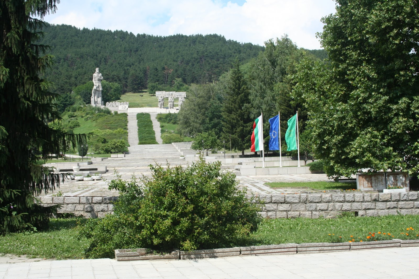 Kalofer, Bulgaria